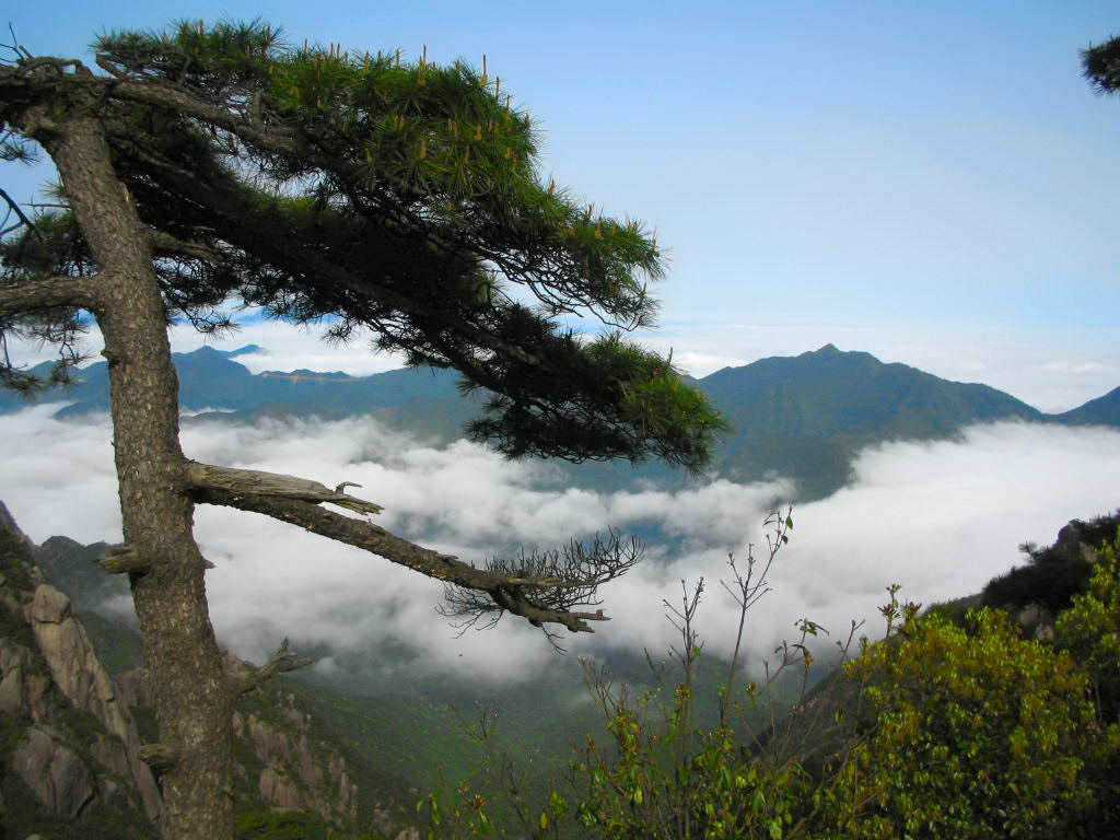 SanQingShan